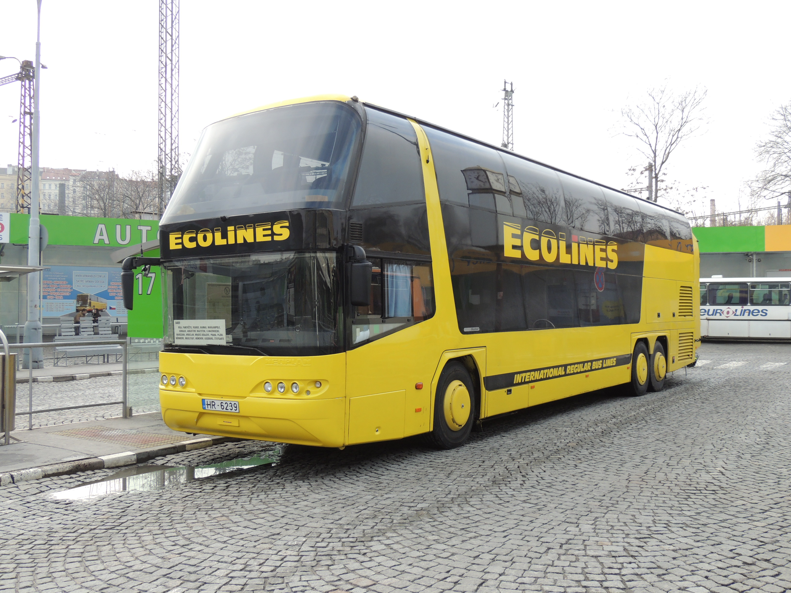 Ecolines (Norma-A) with Neoplan N1122/3L Skyliner WAGPB2ZZ053000401 Ex PP Busselskab, Central bus station Prague Florenc